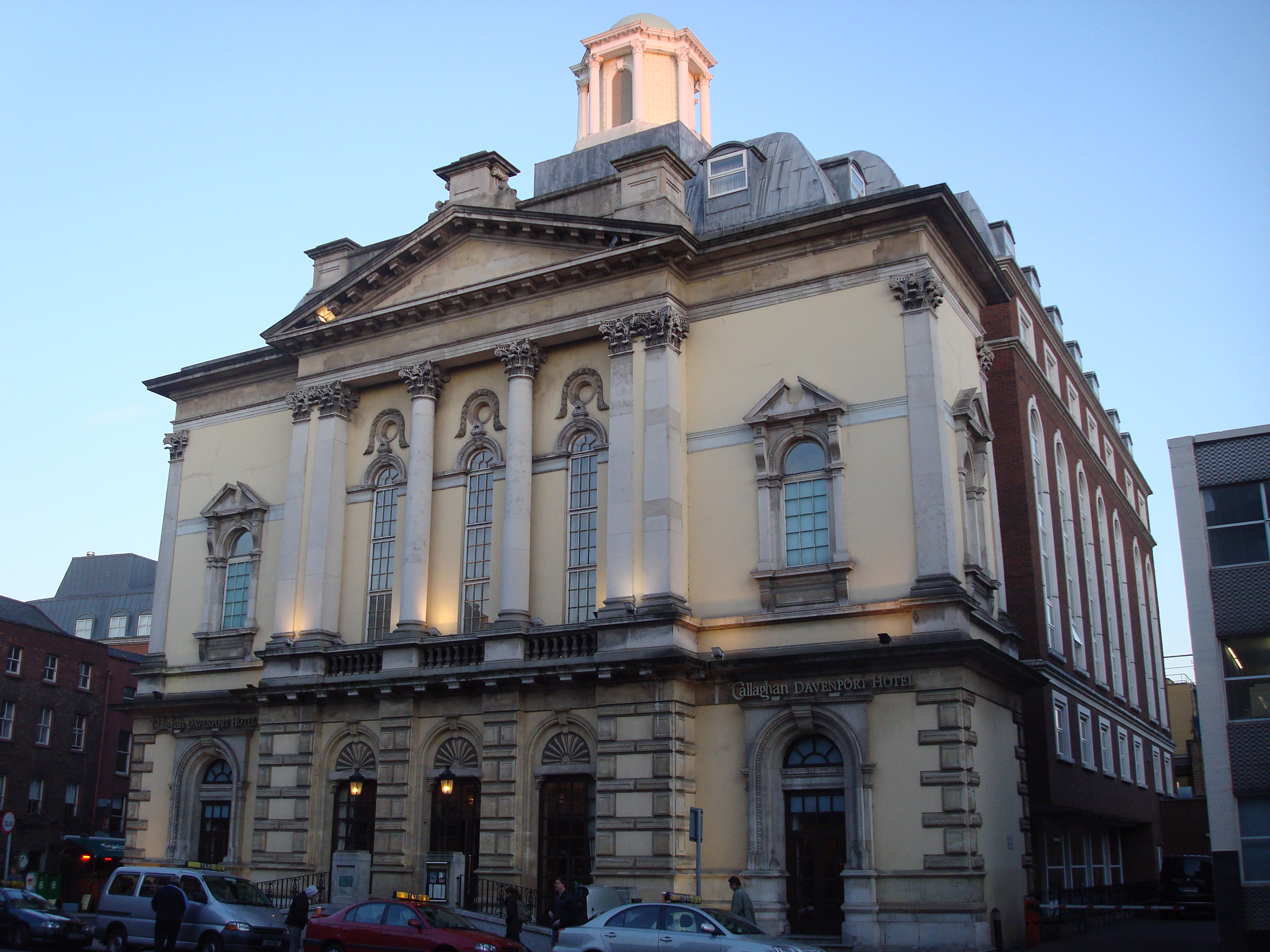 Davenport Hotel, formely known as Merrion Hall, located on Merrion Street.